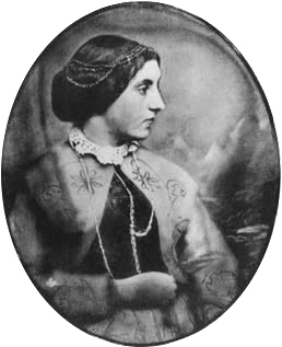 Jane C. Webb Loudon (August 19, 1807 – July 13, 1858)